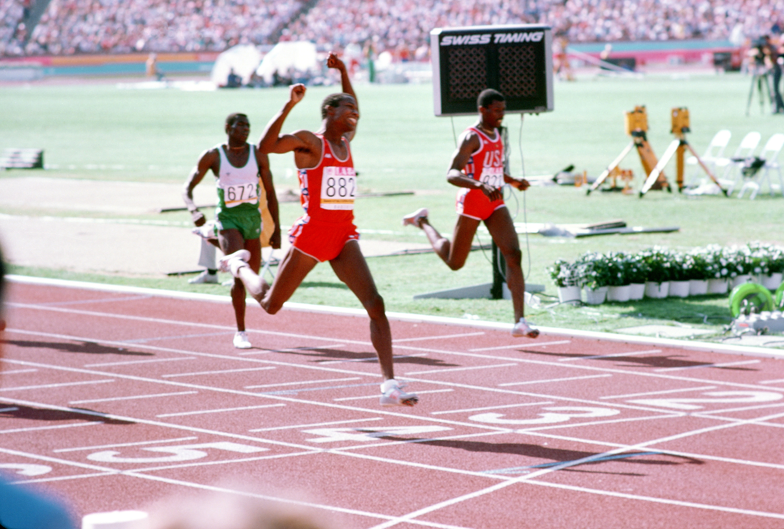 Alonzo Babers (No. 882) crosses the finish line first to win the gold medal in the 400 meter race at the 1984 Summer Olympics.